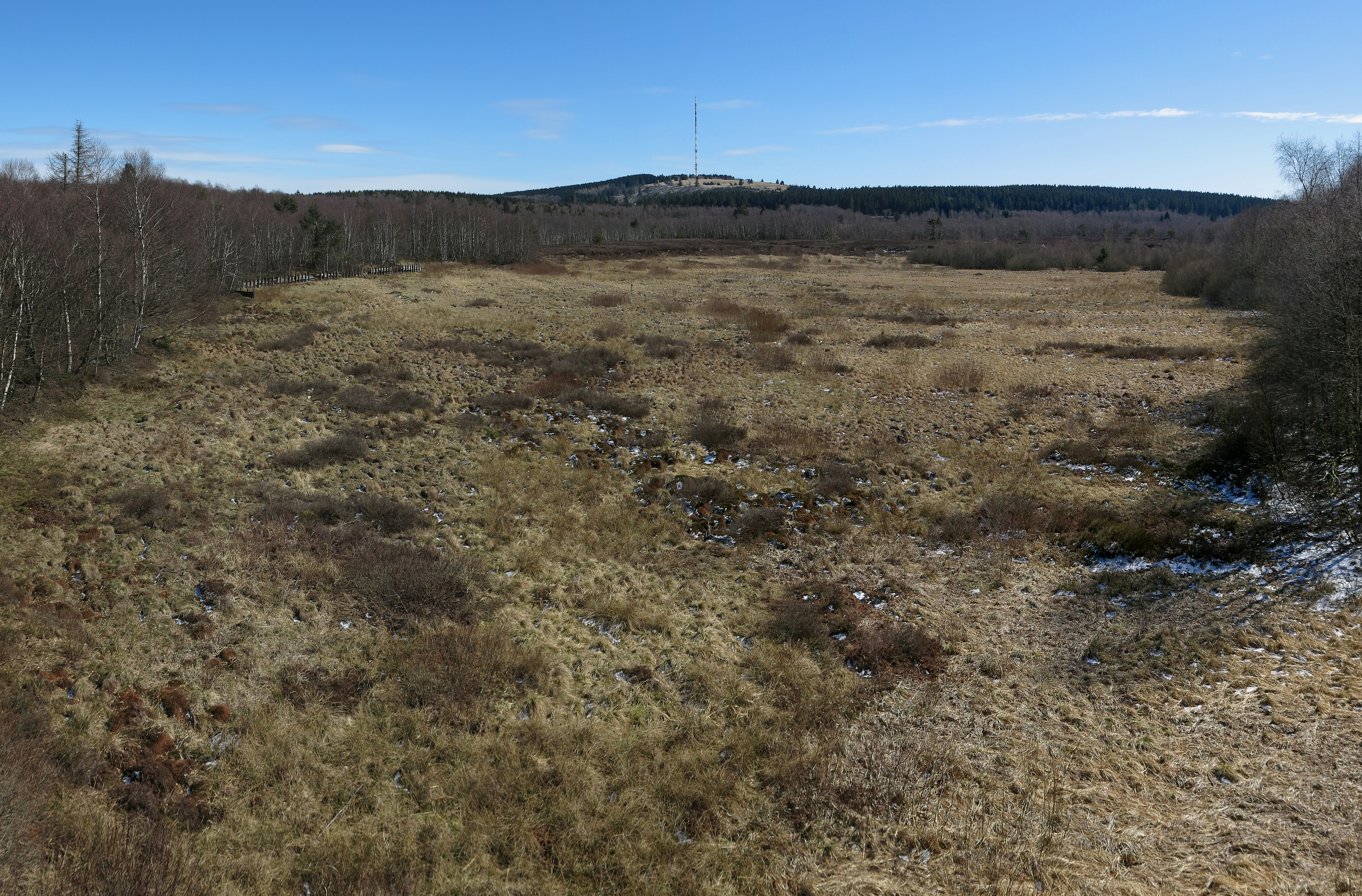 View from the observation tower into the Red Moor. In the background the Heidelstein